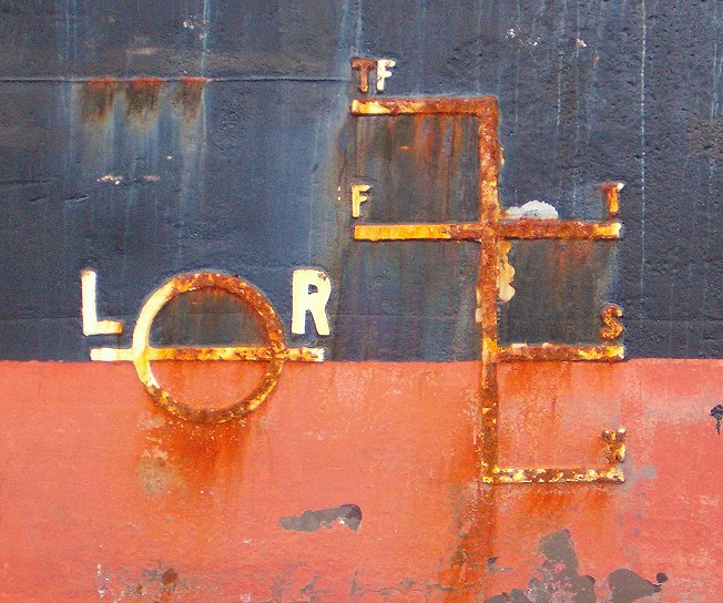 Corrosion on Plimsoll line.